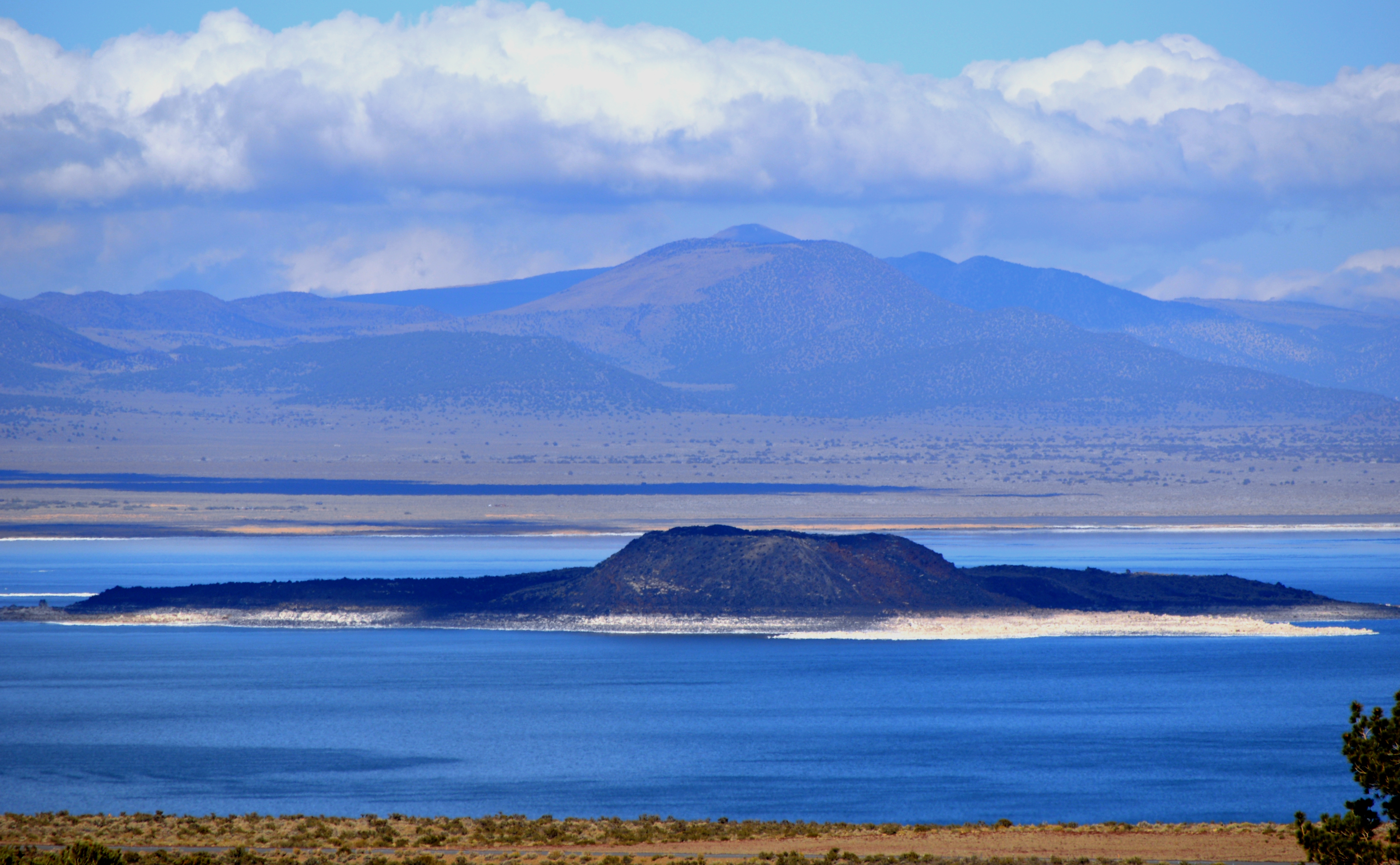 Mono Lake's Negit Island as seen from Tioga Road (California State Route 120, west of U.S. Route 395) in California, U.S.A.